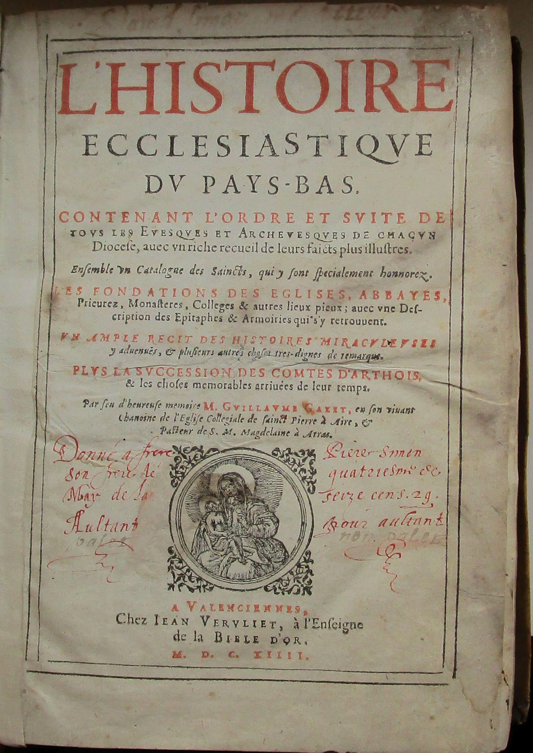 Titlepage of Guillaume Gazet, Histoire ecclésiastique des Pays-Bas (Valenciennes, 1614)